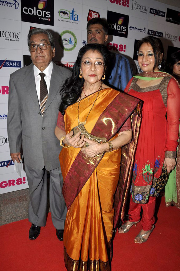 Mala Sinha and Pratibha Sinha at 'GR8! Women Awards 2013'